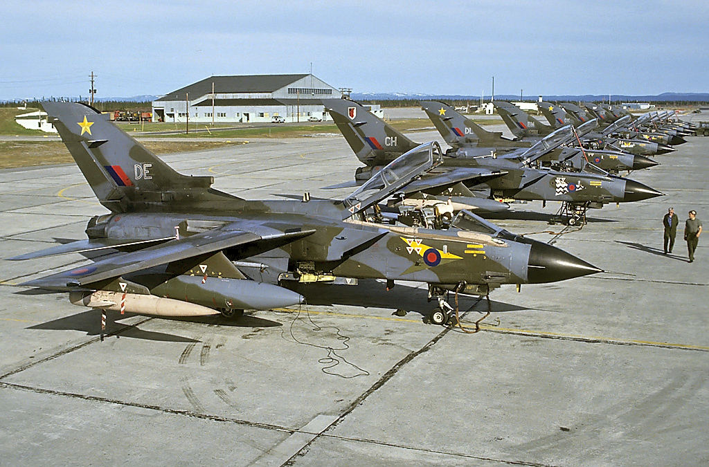 A view of the RAF line at CFB Goose Bay, Labrador, on a sunny day. The aircraft were drawn from several units.